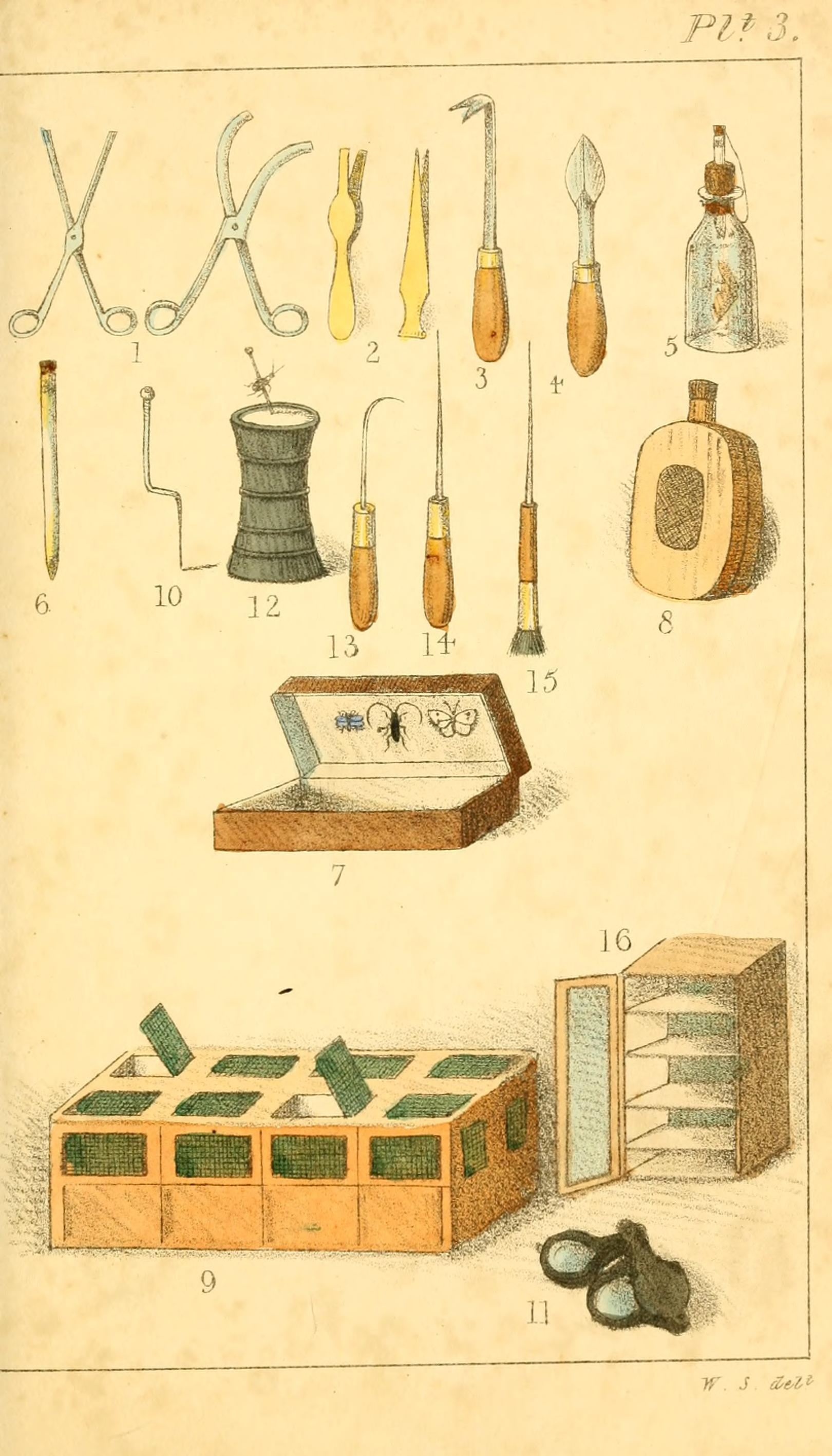 Instructions for collecting, rearing, and preserving British & foreign insects : also for collecting and preserving crustacea and shells by Abel Ingpen. London :W. Smith,1839. 2nd ed., with considerable corrections and additions. Plate II Fig. 1 Pincher forceps Fig. 2 Pliers Fig. 3 A digger Fig. 4 A bark knife Fig. 5 A phial Fig. 6 A quill Fig. 7 A pocket collecting box Fig. 8 A pocket larvae box Fig. 9 Breeding cage Fig. 10 A bent pin Fig. 11 Pocket lens Fig. 12 A stand Fig. 16 Setting board cases